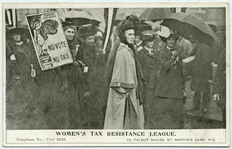 Clemence Housman photographed during a suffragist demonstration, alongside a WTRL poster.